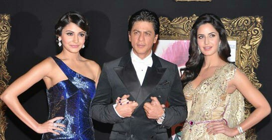 Anushka Sharma, Shahrukh Khan and Katrina Kaif at the premiere of JAB TAK HAI JAAN